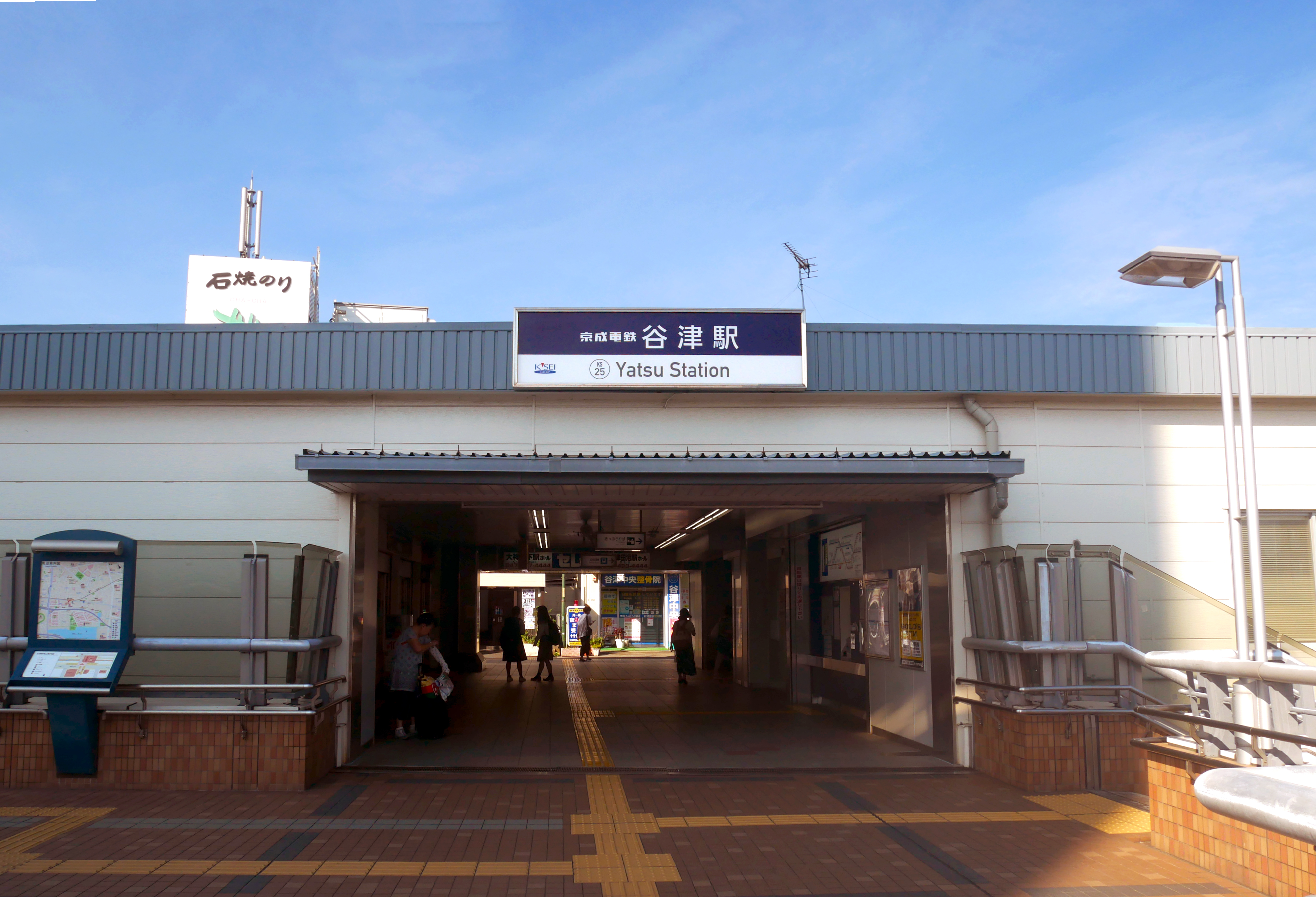 Yatsu Station (谷津駅)